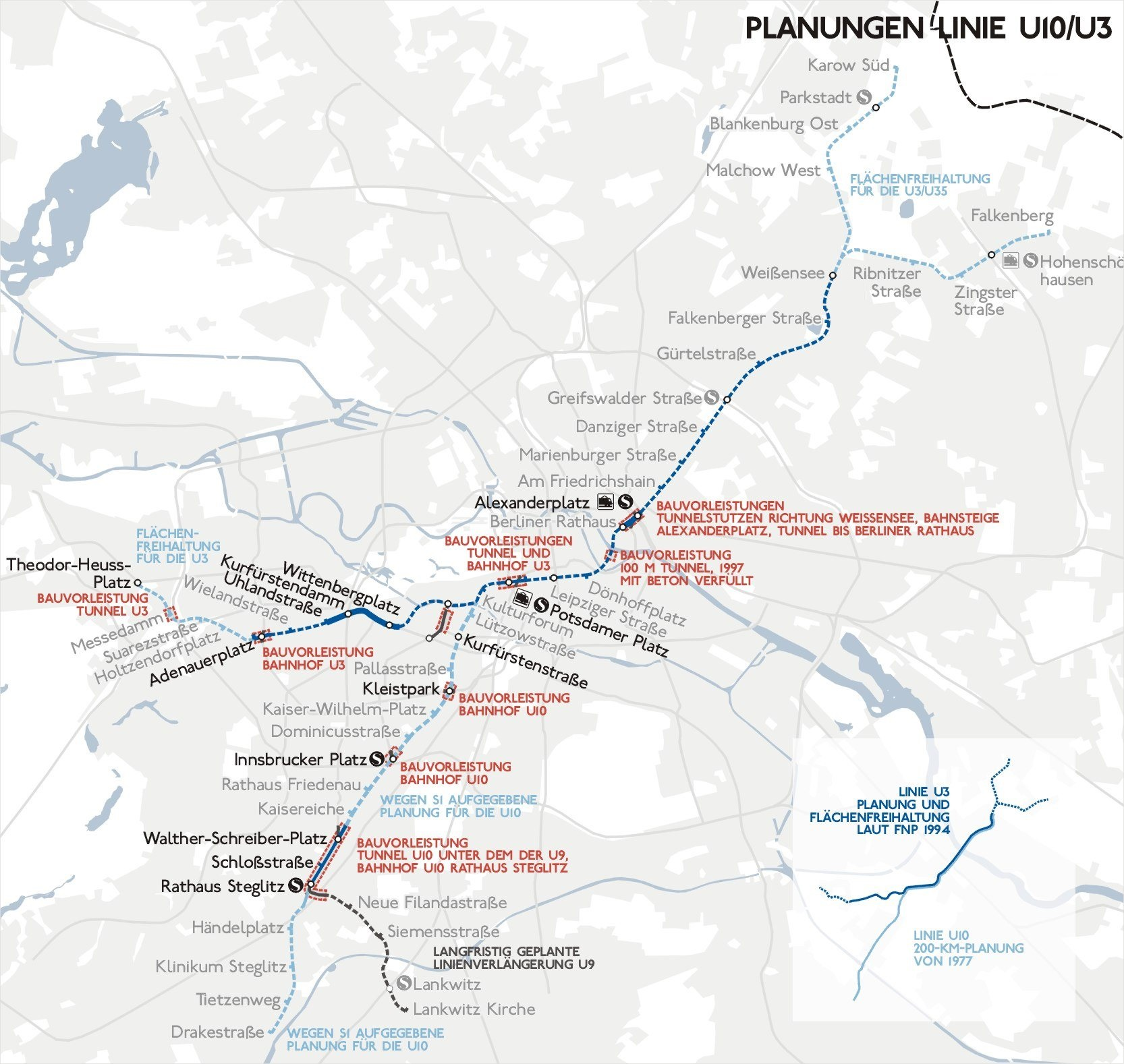 Map of Berlin with the planned subway lines with the names U3 and U10.